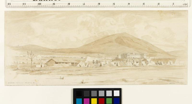 Serb Camp, Mikra Bay; Thirty-six Drawings of Salonika and Macedonia image: a view across a Serb camp at Mikra Bay in Macedonia. A few soldiers stand amongst a large number of tents in the foreground, which have been assembled alongside three wooden stable buildings. Further back are more tents, as well as a large permanent stone building. The peak of a large hill rises up in the background.